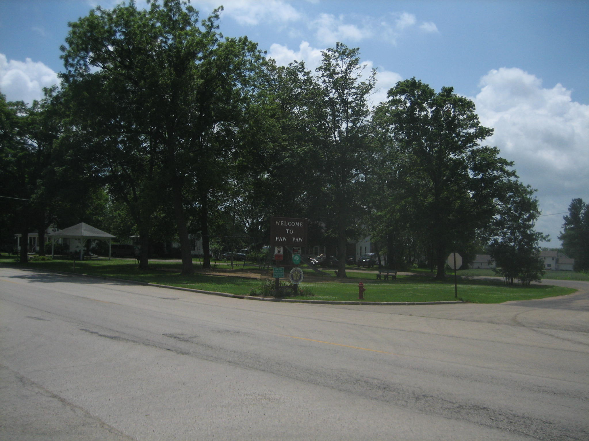 Signage, Paw Paw, Illinois, United States.